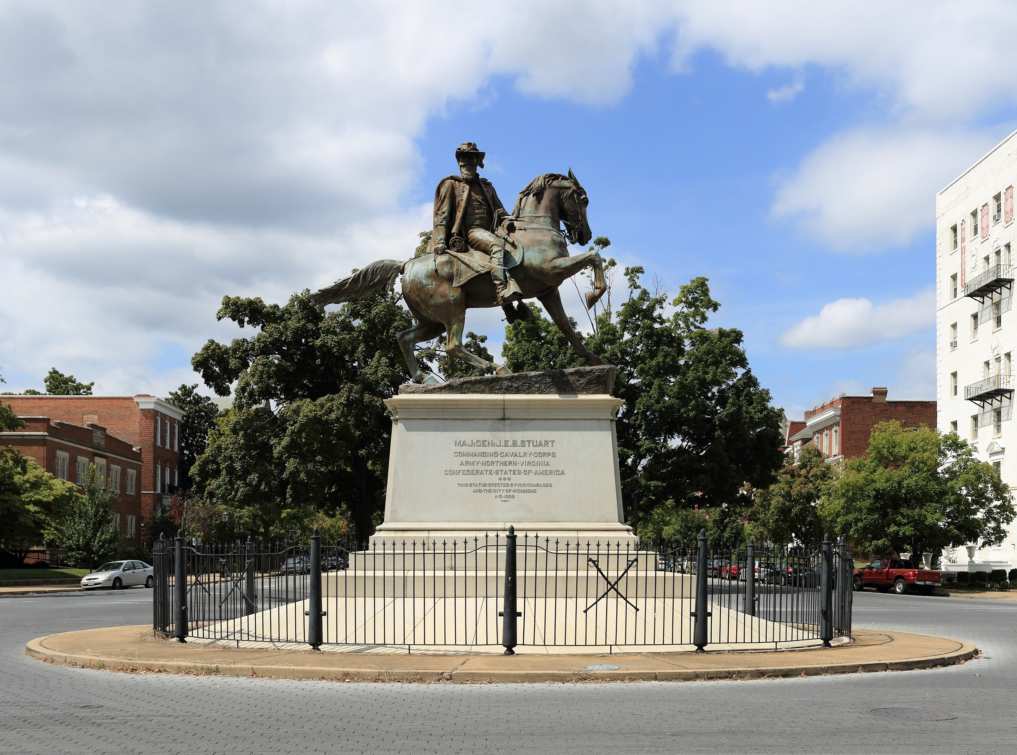 Monument Avenue Historic District, Richmond, Virginia: The J.E.B. Stuart Monument, an equestrian bronze statue sitting atop a granite base. The statue which was sculpted by Fred Moynihan of New York was the second monument unveiled on Monument Ave in 1907 and was inspired of the British General Outram sculpture in Calcutta. Stuart is turned in the saddle facing east while the horse faces north.